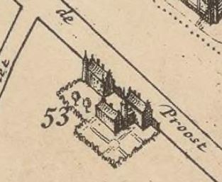 Detail of 1695 map by J. Laboureur & Josse van der Baren, Bruxella, nobilissima Brabantiæ civitas